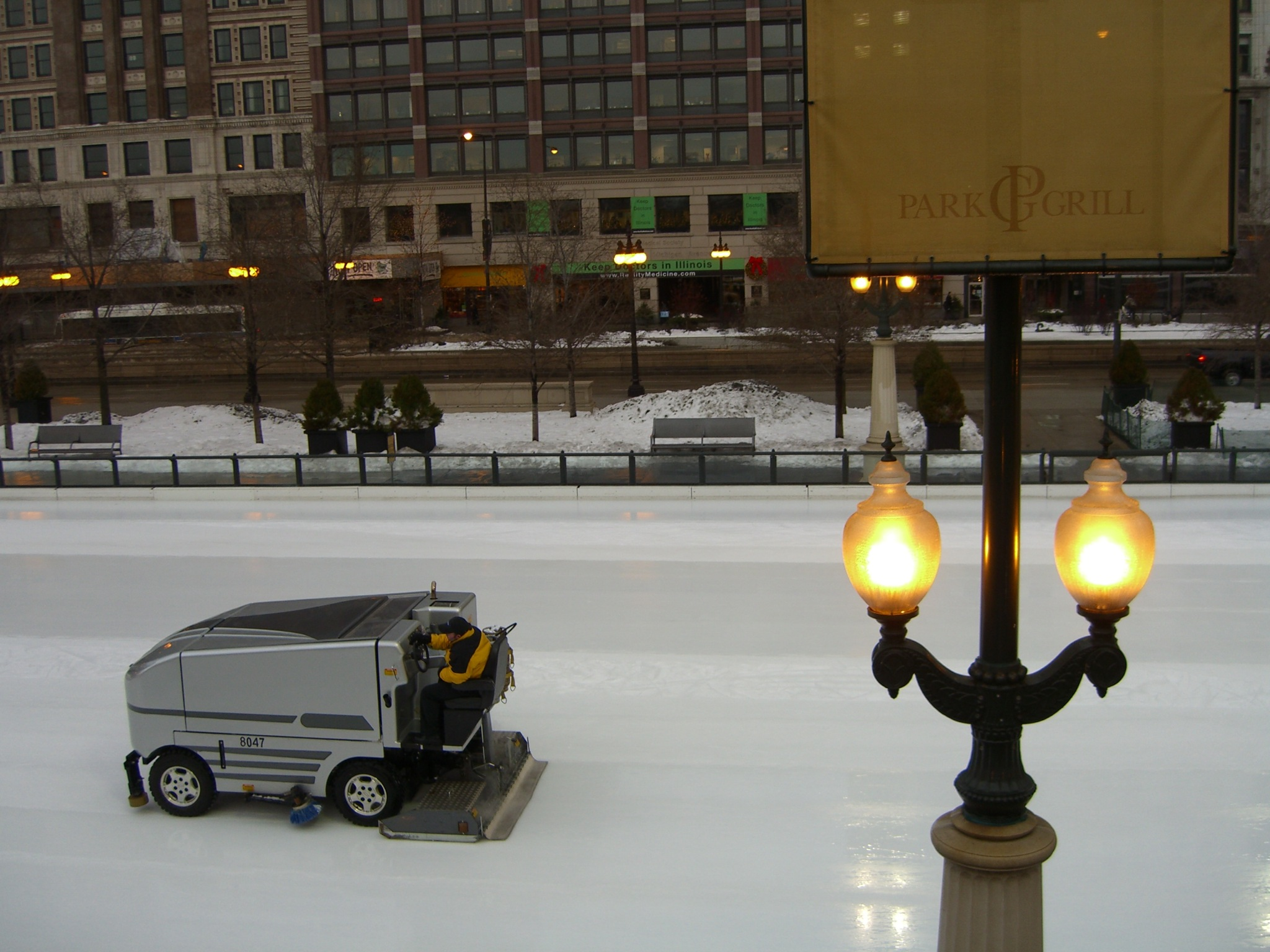 McCormick Tribune Zamboni ice resurfacer